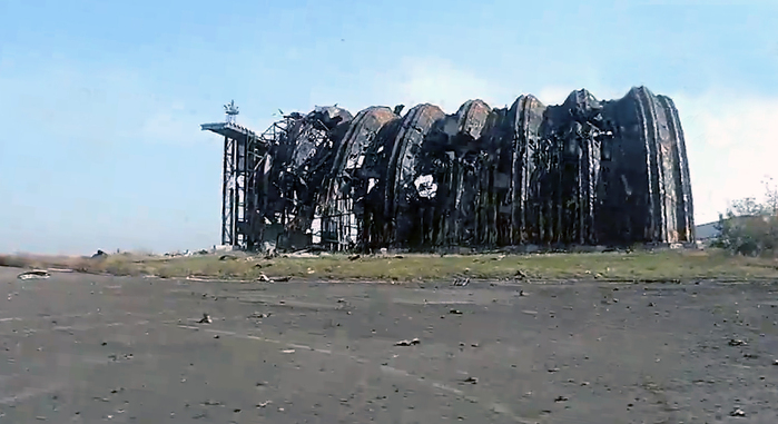 Ruins of Donetsk Sergey Prokofiev International Airport, October 16, 2014.